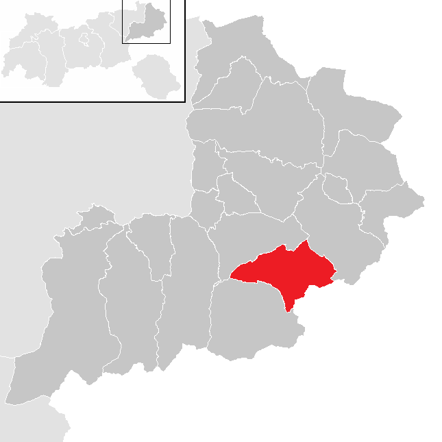 District Kitzbühel